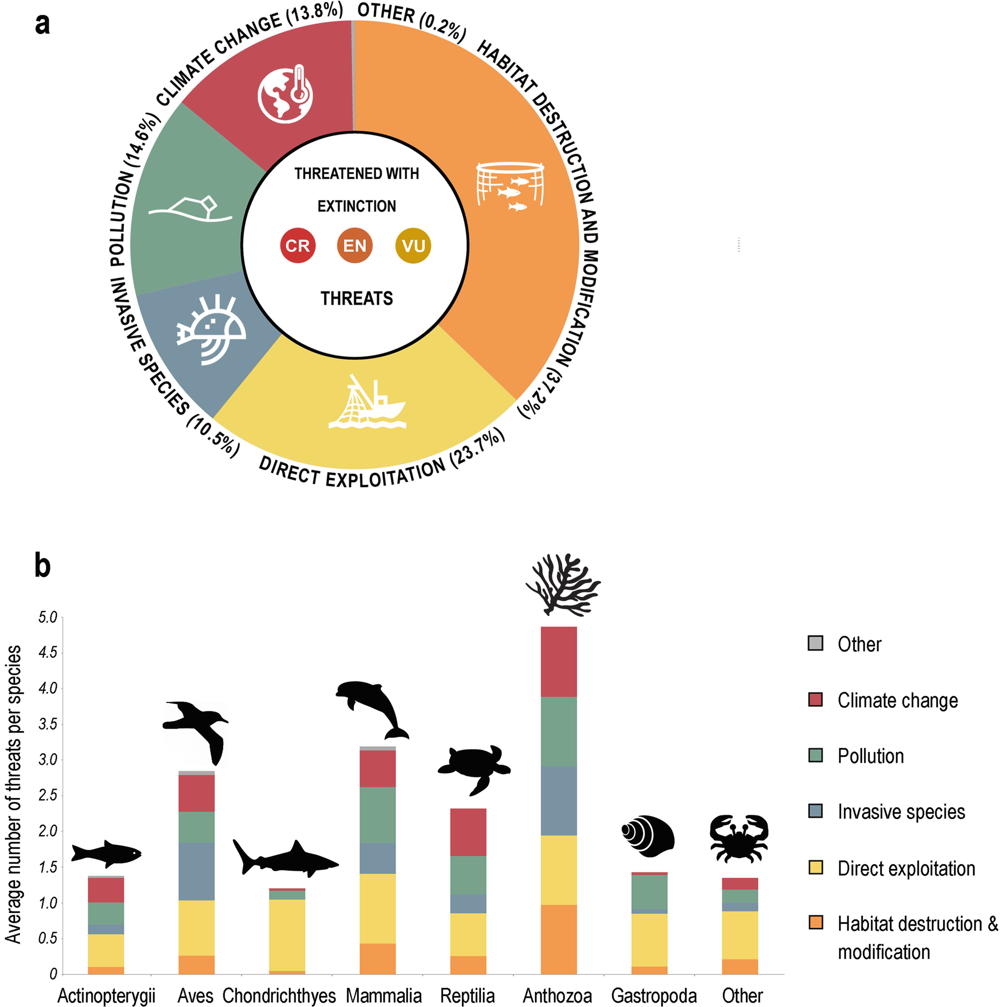 Anthropogenic stressors to marine species threatened with extinction. (a) Relative importance of various anthropogenic stressors to species threatened with extinction (critically endangered (CR), endangered (EN) or vulnerable (VU)). (b) Average number of anthropogenic stressors affecting species threatened with extinction for various taxonomic groups. Several taxonomic groups with a low number of species threatened with extinction were pooled under “other” for visualization purposes (“Myxini,” “Sarcopterygii,” “Polychaeta,” “Insecta,” “Malacostraca,” “Maxillopoda,” “Merostomata,” “Hydrozoa,” and “Holothuroidea”). Colors indicate the percentage contribution of the different anthropogenic stressors. Data extracted from the IUCN Red List database of threats, 2018.